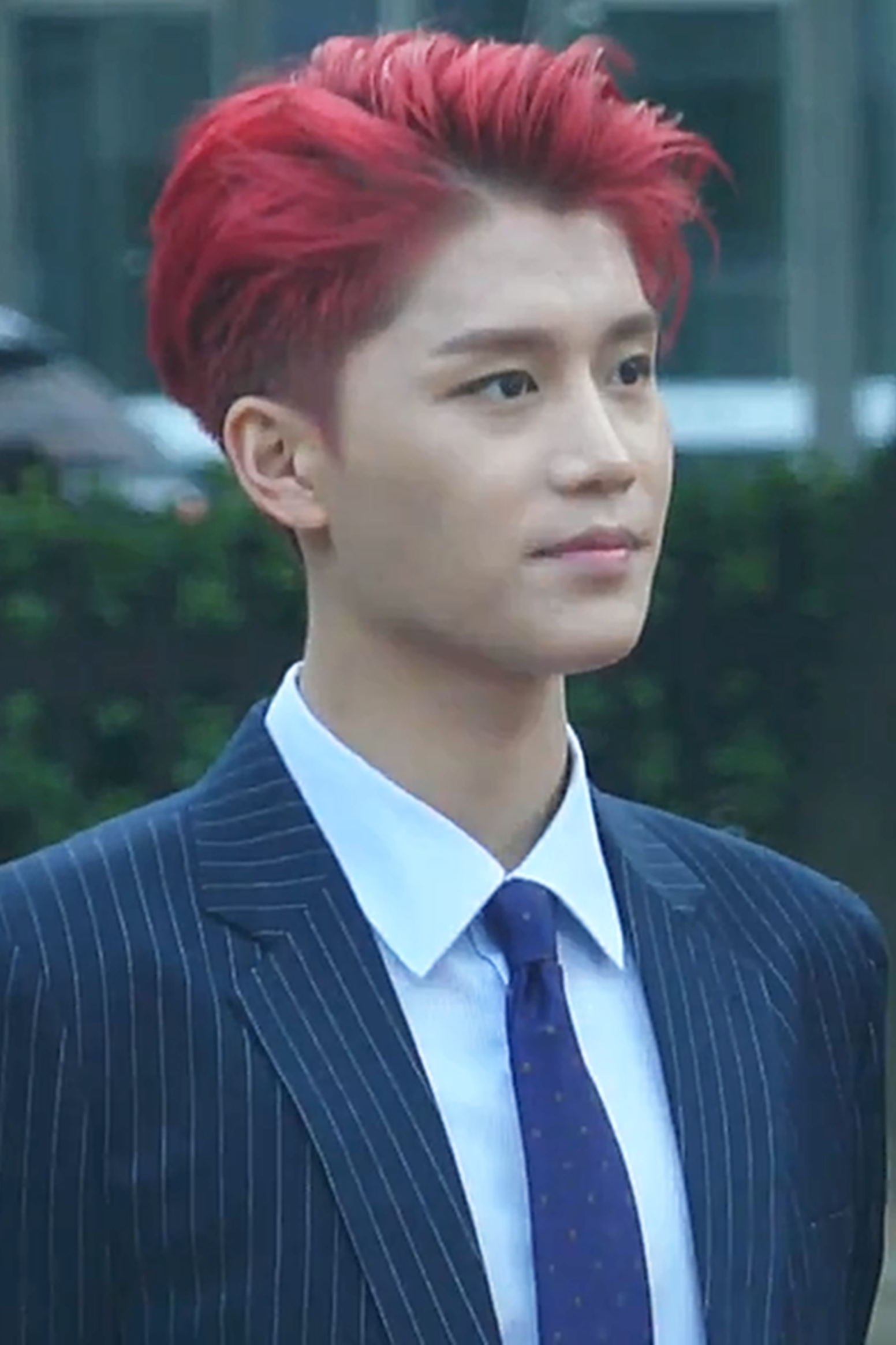 Moon Tae-il going to a Music Bank recording on October 12, 2018.